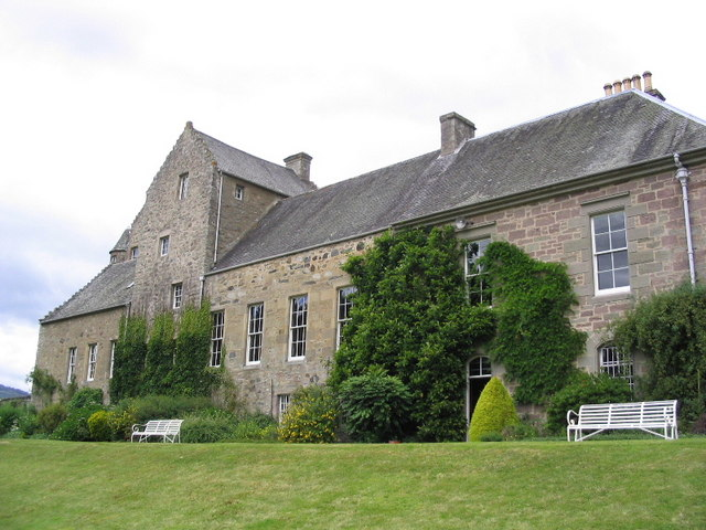 Murthly Castle Situated in a bend in the River Tay.